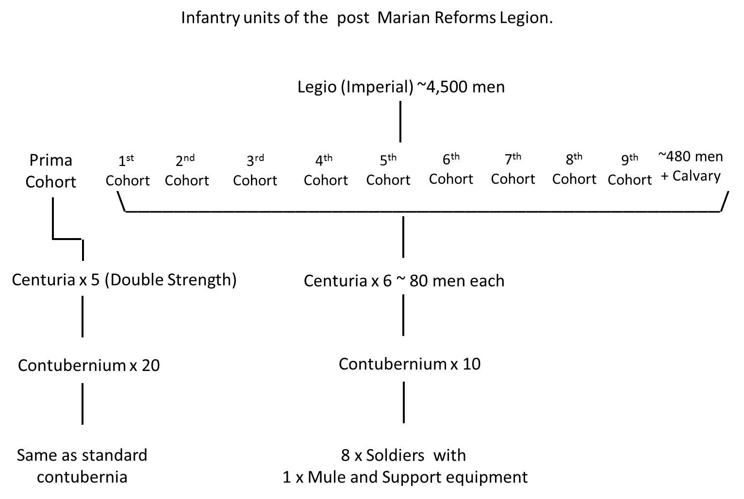 Shows general organization of maneuver elements in the late Republic legion